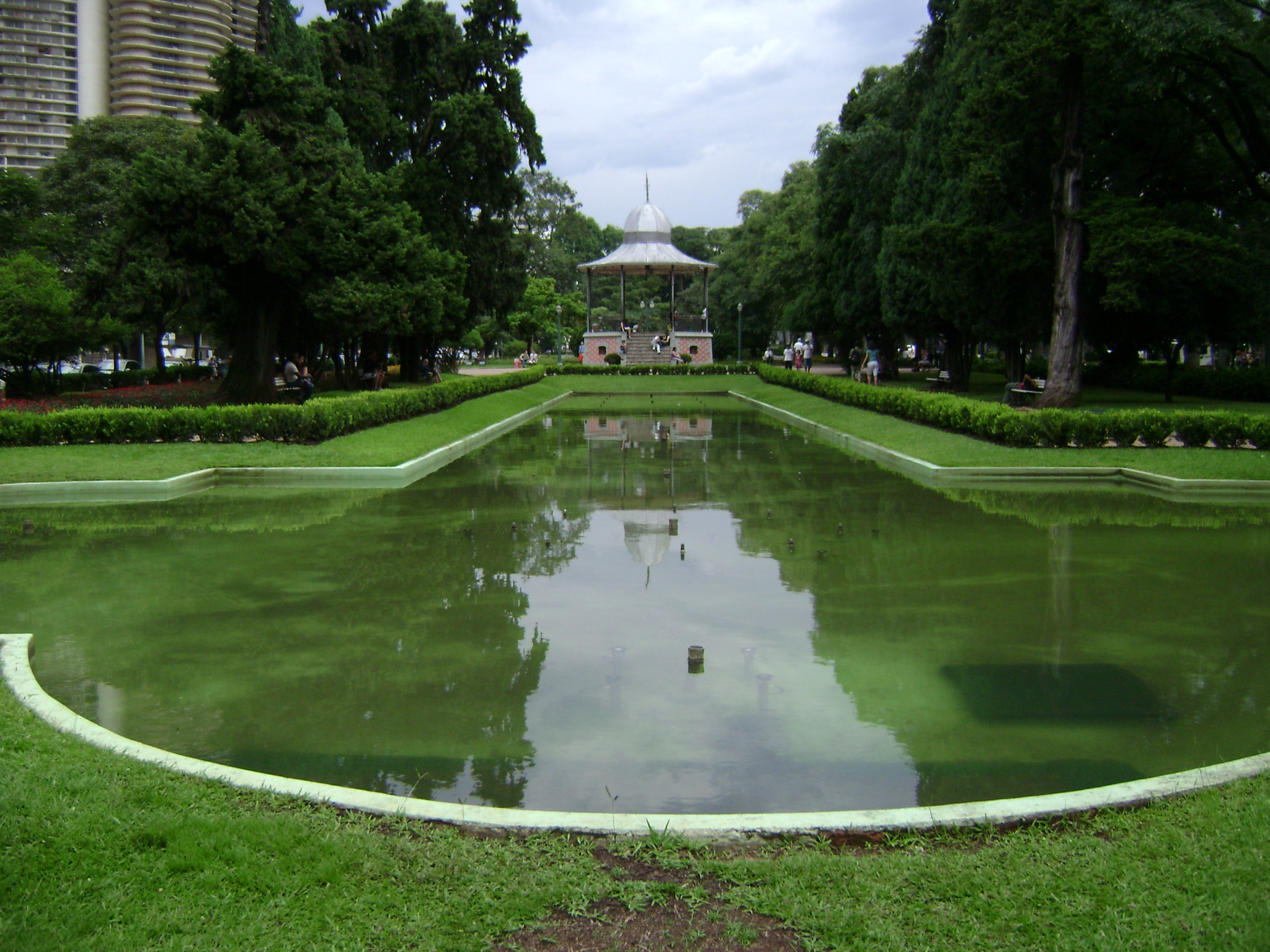 Chafariz na praça da Liberdade, em Belo Horizonte.